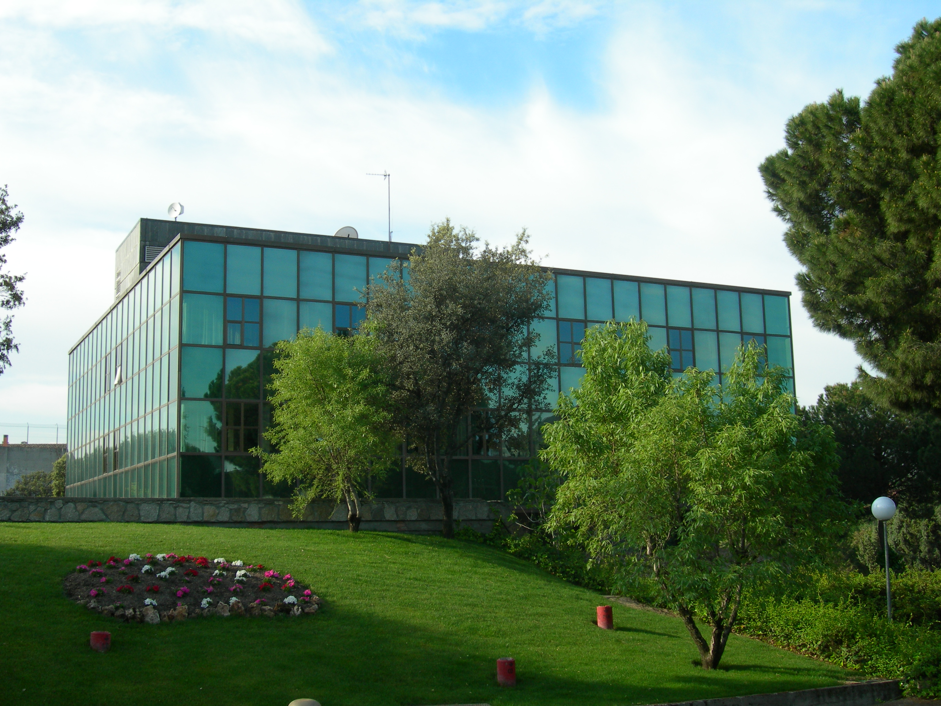 Technical University of Madrid (UPM), Spain. Computer Science Faculty. "Block 1"